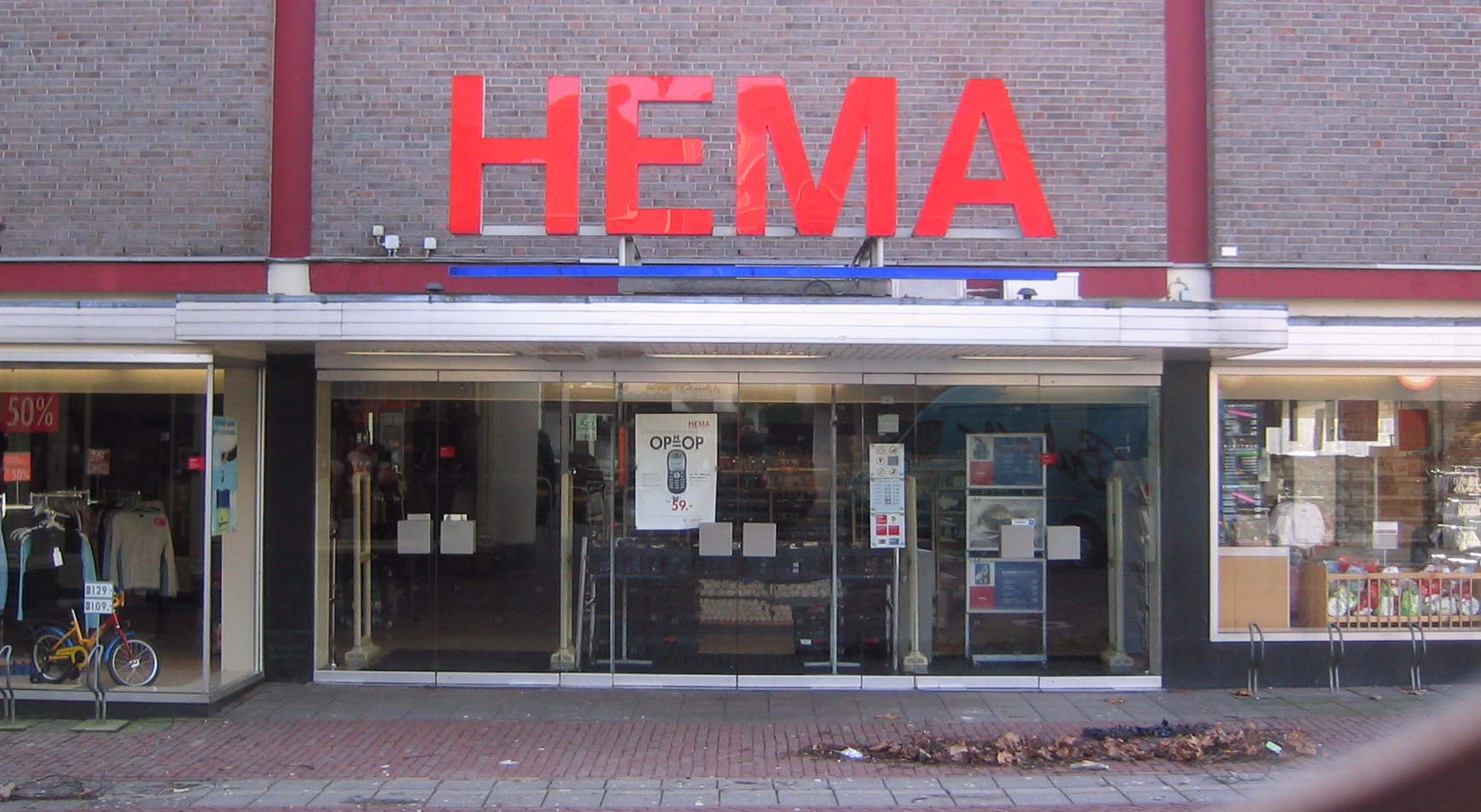 Front of Dutch retailstore "Hema". Photo taken by me, on 2004-02-01.